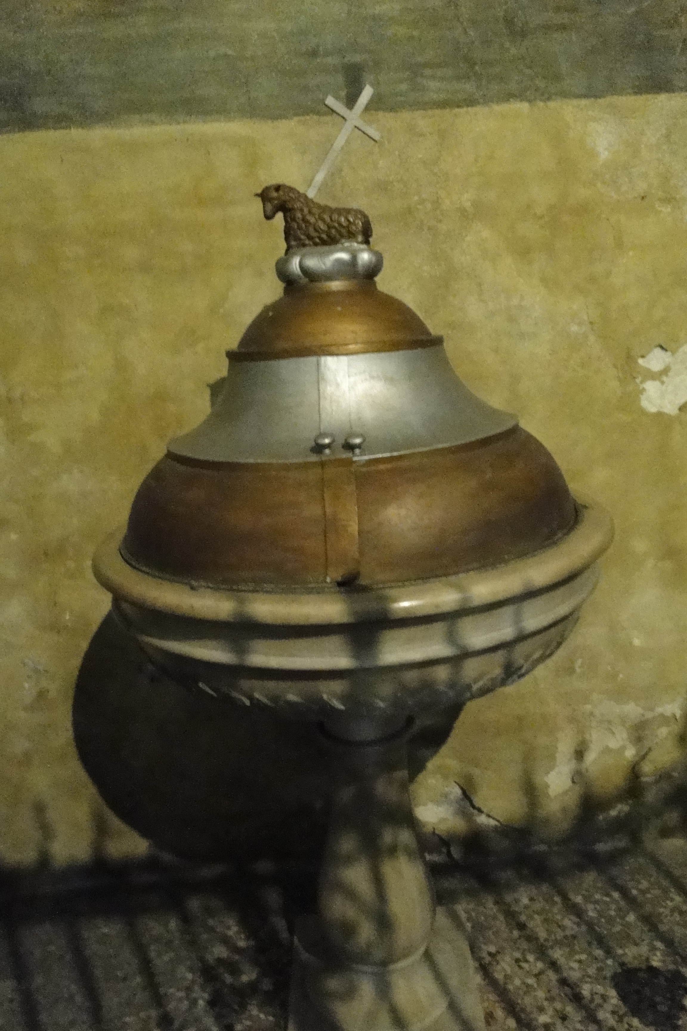 Church of Saint Dalmatius in Turin (Italy): Font